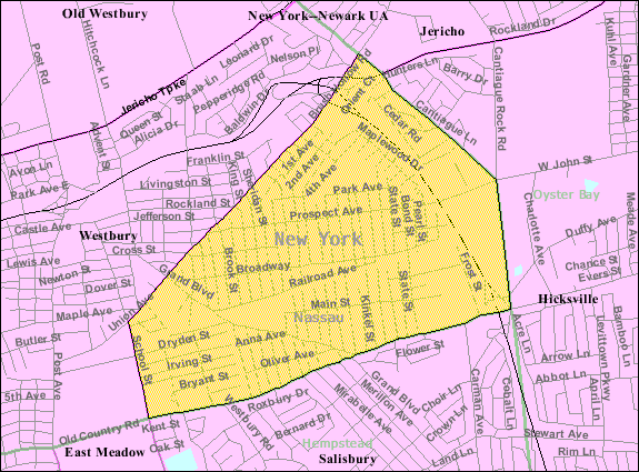 U.S. Census 2000 reference map for New Cassel, New York